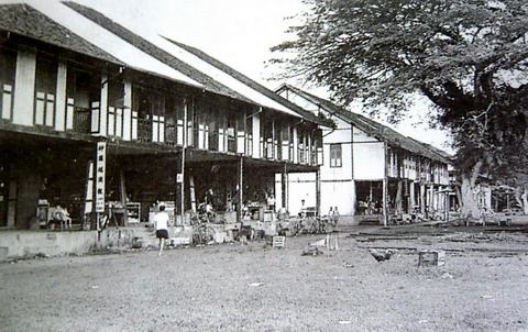 Song ,Sarawak is My Hometown. In fact,Song is my hometown.I had spent my early life in Song ,Sarawak for almost 16 years (from age 1 year old to 17 years old after SPM examination)..since then I left this Small Town.....for better living & future.......just like the rest ......)..through the years...just like the other places in the World..Song has changed by time & creating its very own history.